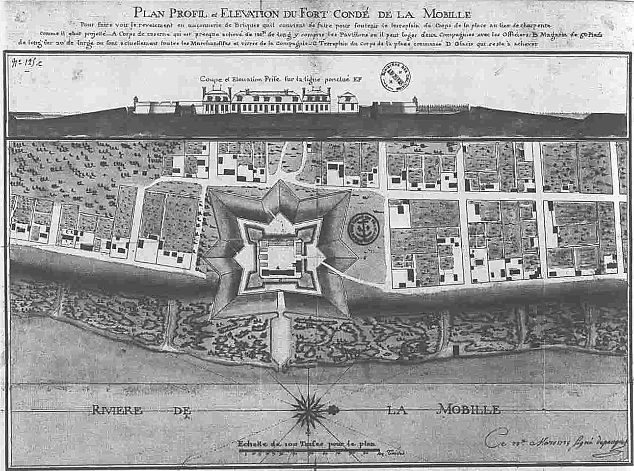 Mobile, Alabama in 1725. Profile and Elevation Map of Fort Condé at Mobile.